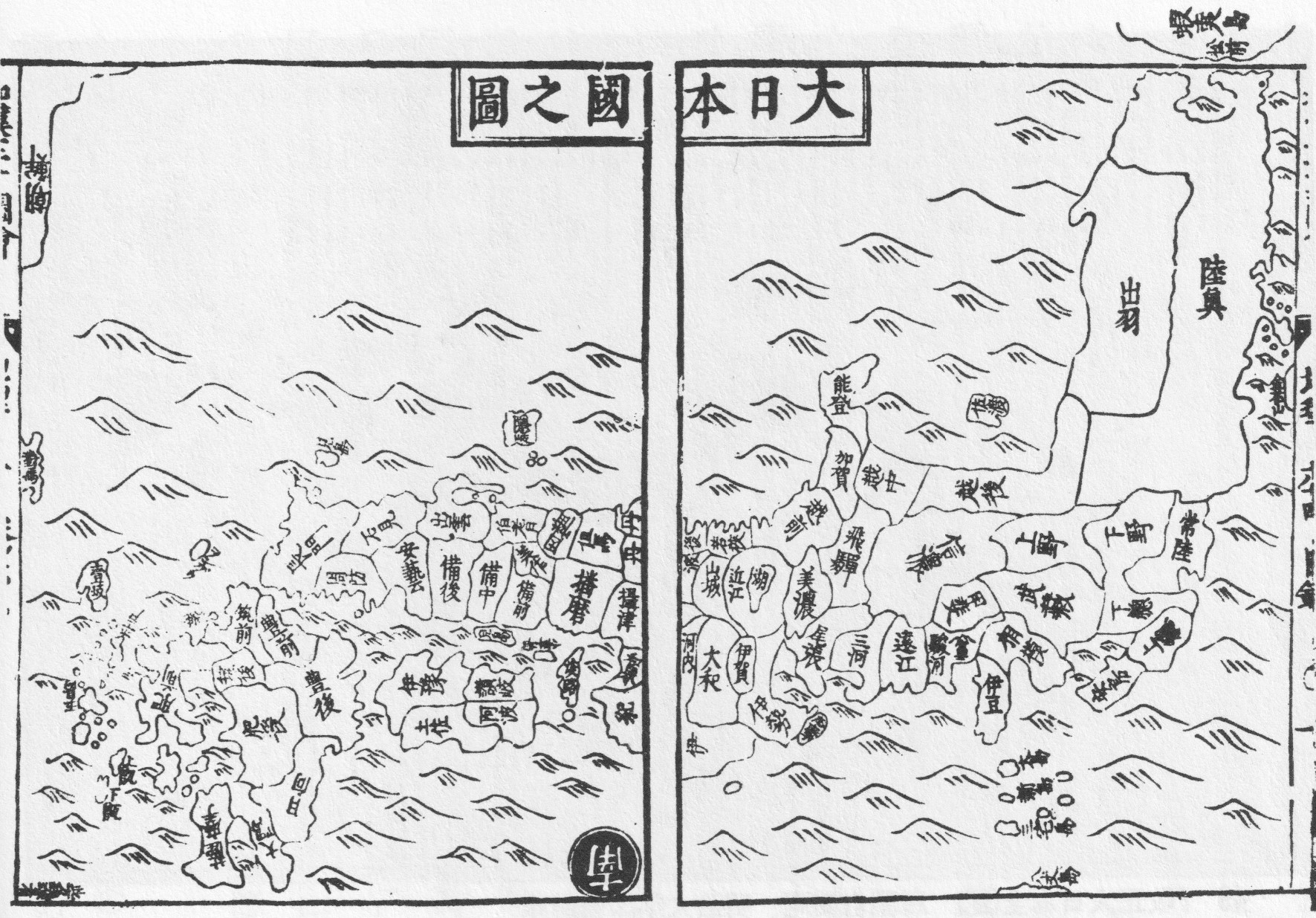 Map of Japan by Terajima Ryôan, 1715